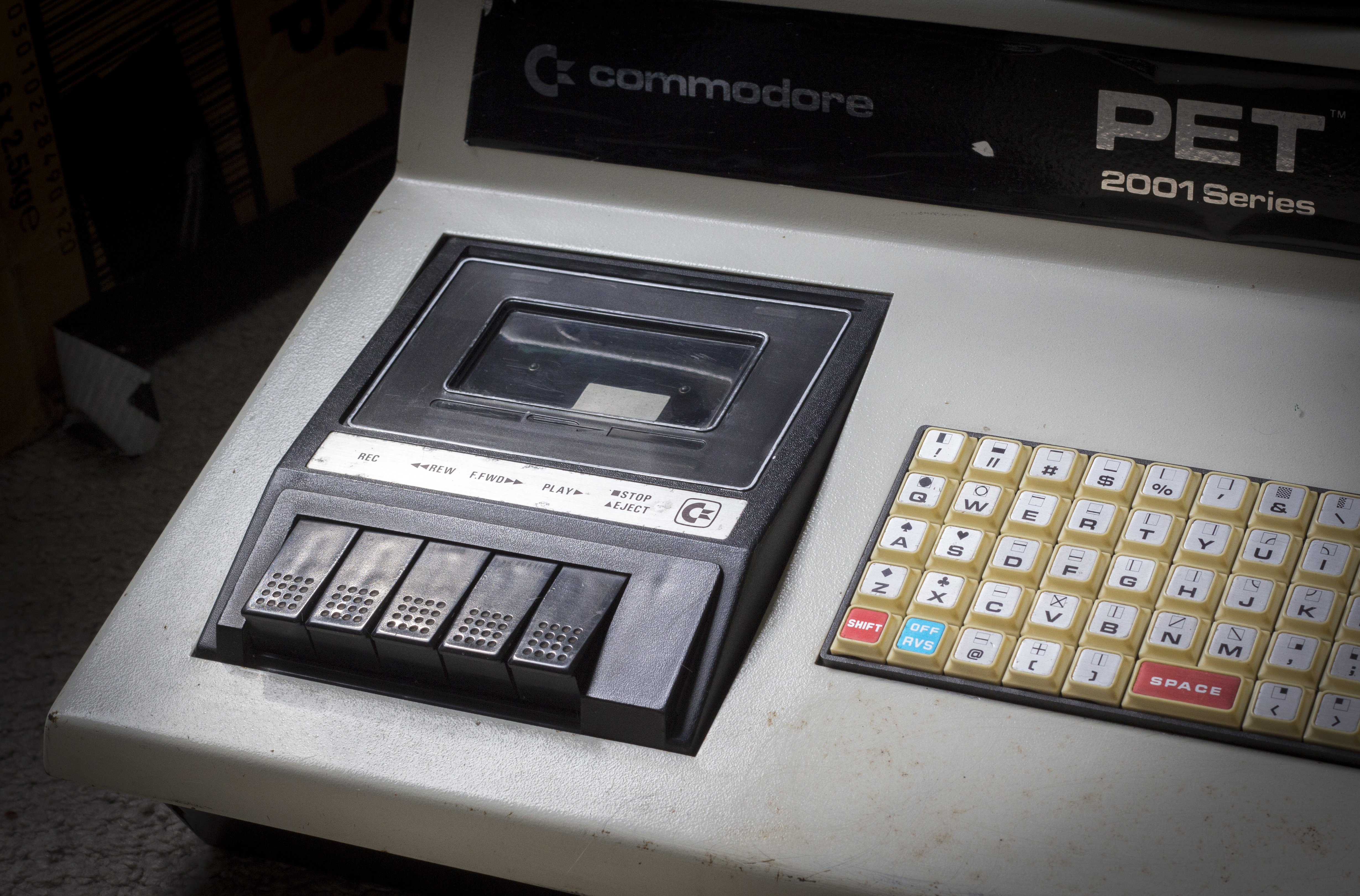 see caption